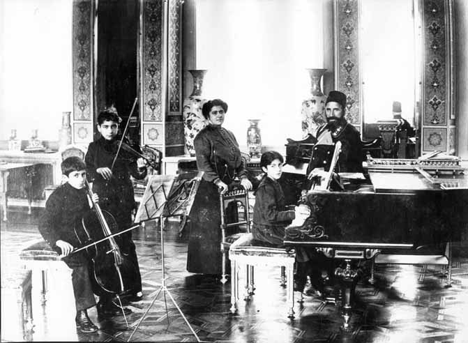 Tagiyevs family.